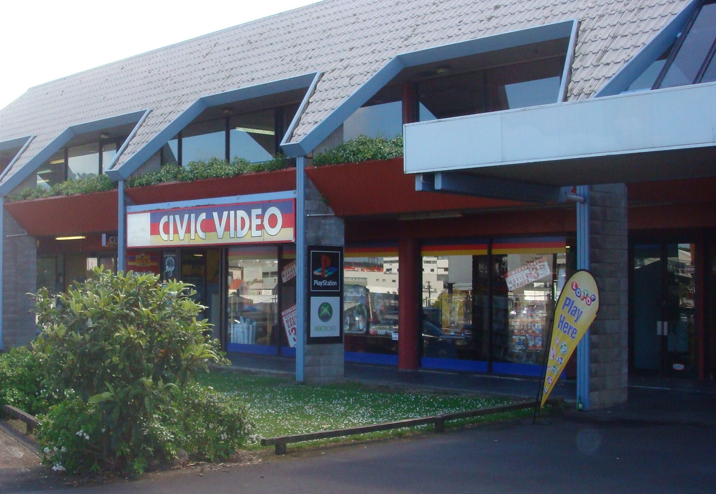 Civic Video, 100 Ponsonby Rd, Grey Lynn, Auckland, New Zealand. Lotto, Xbox and PlayStation advertisements are visible.